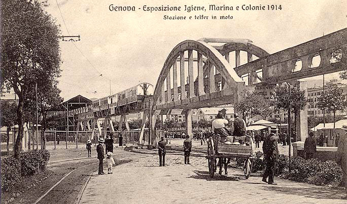 Telfer in Genoa